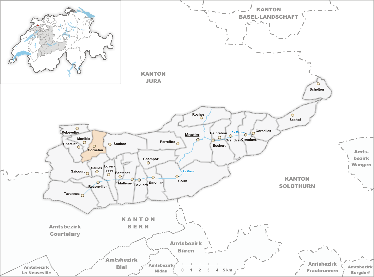 Municipality Sornetan